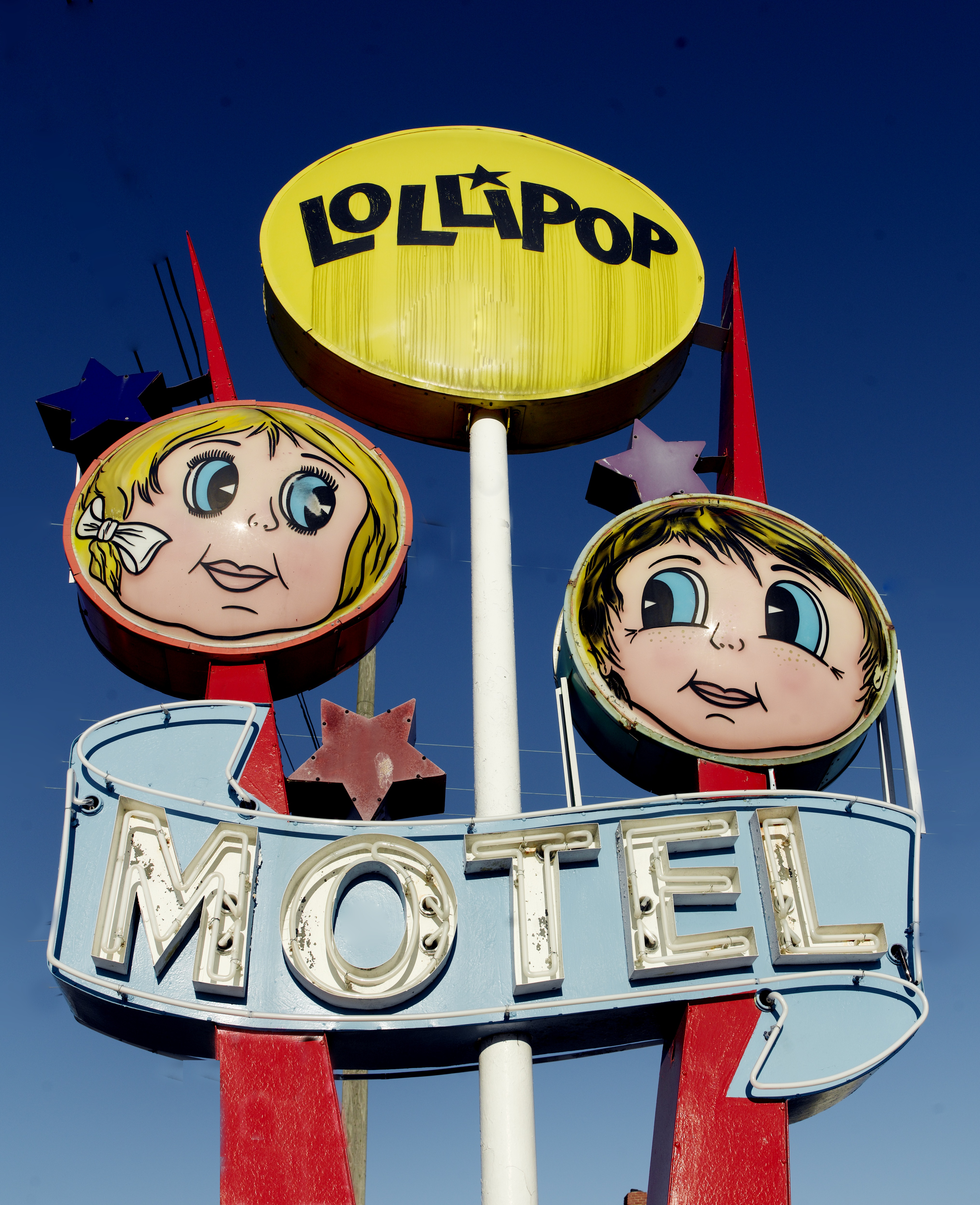 The famous sign of the Lollipop Motel in North Wildwood, New Jersey, taken by famous photographer Carol Highsmith. The motel is in the NJ State Historic District call the Wildwoods Shore Motel Historic District Extract from LOC record Title: Lollipop Motel sign, Wildwood, New Jersey Creator(s): Highsmith, Carol M., 1946-, photographer Date Created/Published: 2006 December 10. Medium: 1 photograph : digital, TIFF file, color. Reproduction Number: LC-DIG-highsm-04147 (original digital file) Call Number: LC-DIG-highsm- 04147 (ONLINE) [P&P] Repository: Library of Congress Prints and Photographs Division Washington, D.C. 20540 USA Notes: Title, date, and subjects provided by the photographer. Credit line: Carol M. Highsmith's America, Library of Congress, Prints and Photographs Division. Gift and purchase; Carol M. Highsmith; 2009; (DLC/PP-2010:031). Forms part of: Carol M. Highsmith's America Project in the Carol M. Highsmith Archive. Photographer's choice (America project).